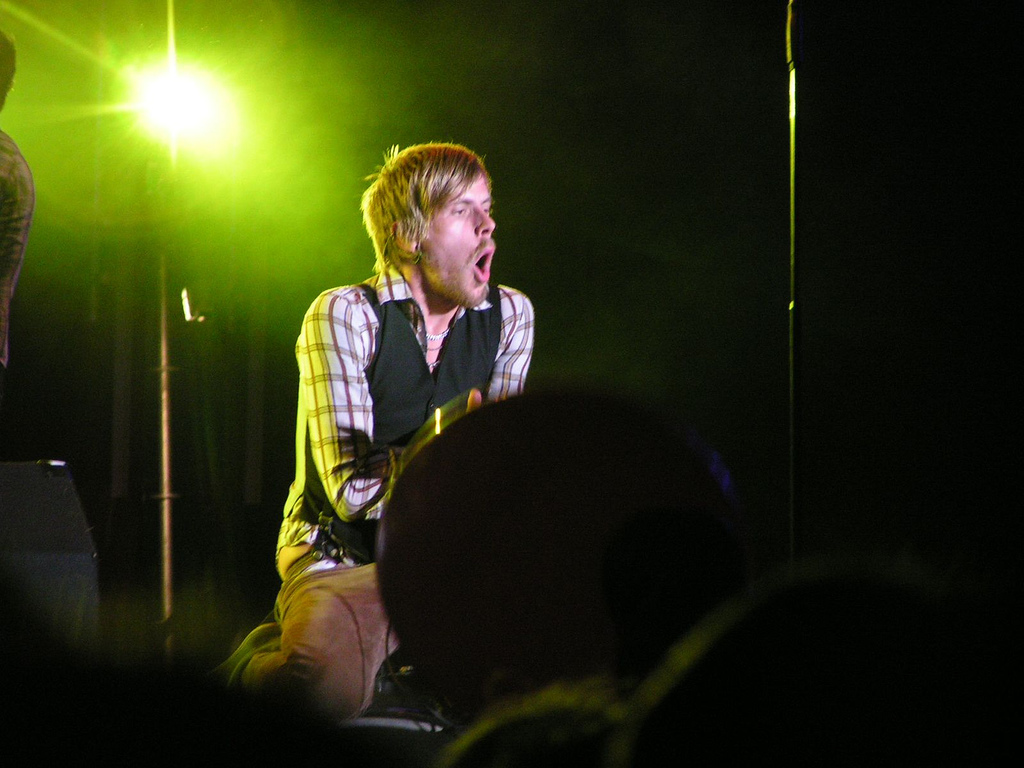 he's funny, isn't he?